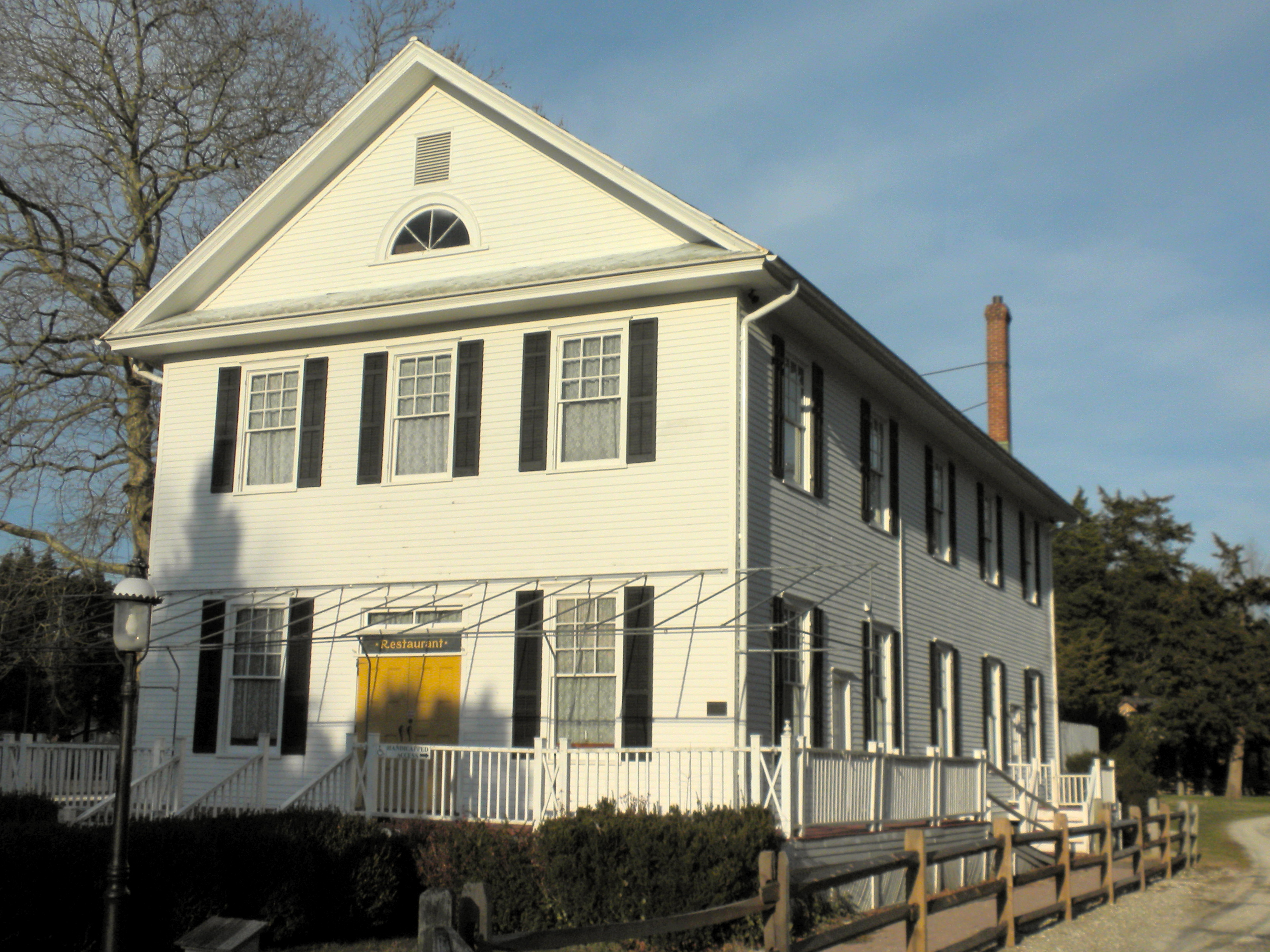 Old Grange building in Cold Spring, Cape May County, New Jersey. Now operated as a restaurant in an Historic park. On the NRHP. On US 9, north of Cape May city.